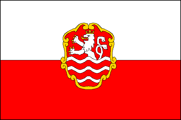 Municipal flag of Karlovy Vary city, Czech Republic.